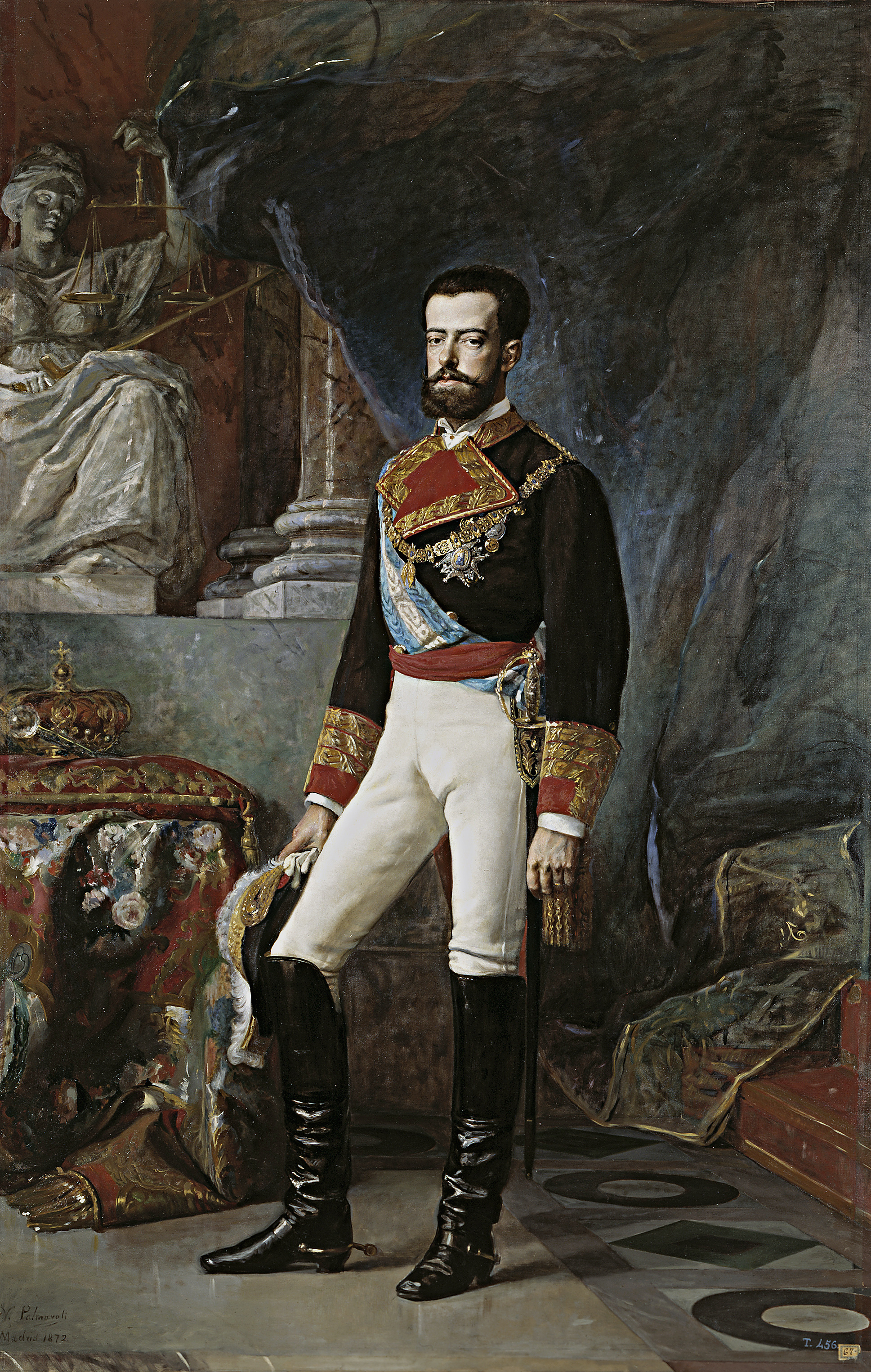 Amadeo (Italian Amedeo, sometimes anglicized as Amadeus) ( 30 May 1845 – 18 January 1890) was the only King of Spain from the House of Savoy. He was the second son of King Victor Emmanuel II of Italy and was known for most of his life as Duke of Aosta, but served briefly as King of Spain from 1870 to 1873. Granted the hereditary title Duke of Aosta in the year